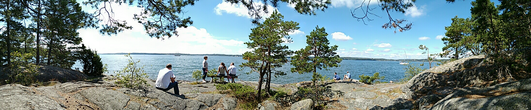 Artipelag boardwalk through primeval woods, over the rocks, wooden footpaths and alongside the open, glittering water.